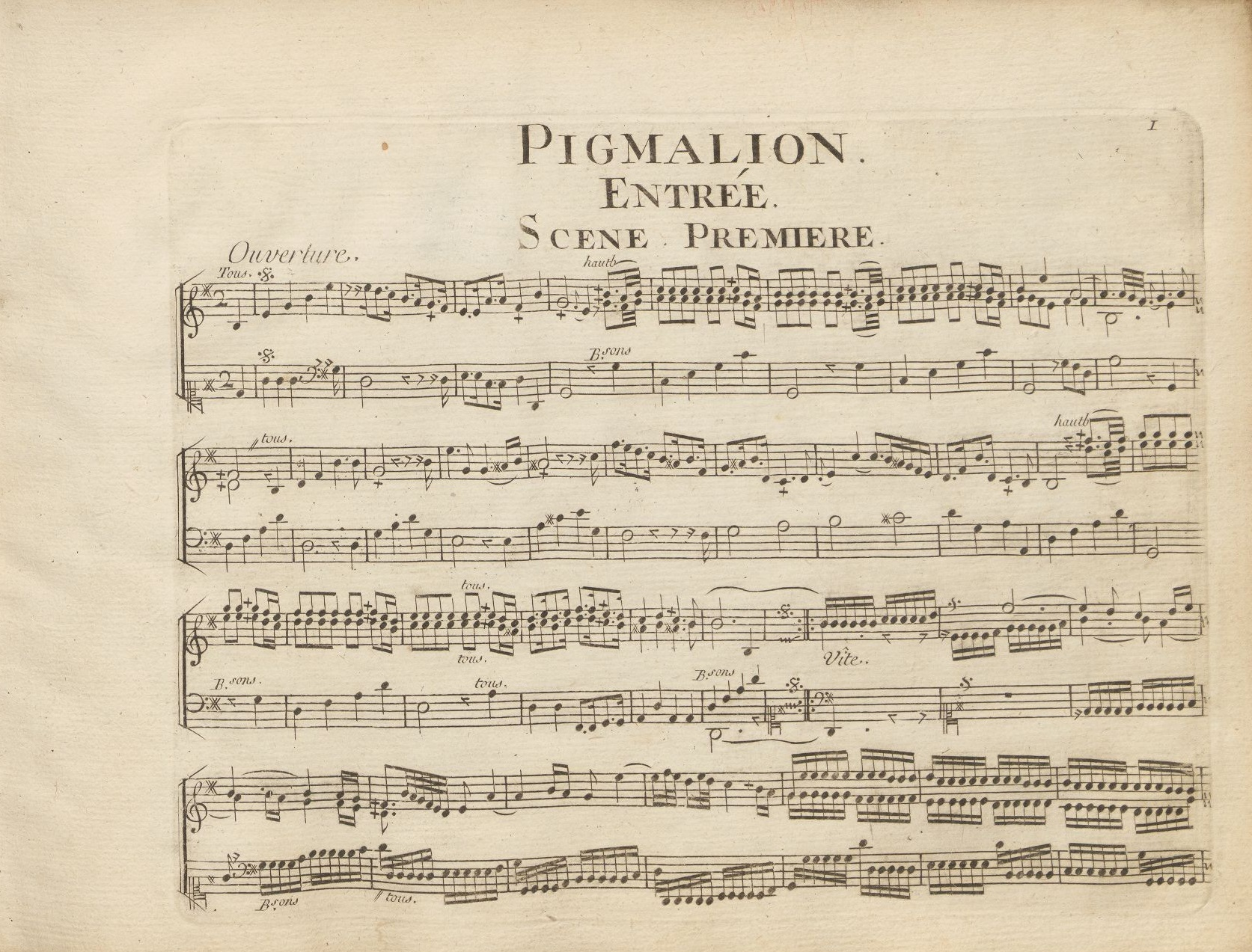 Sheet music: Pigmalion: acte de ballet, Paris: 1748, by Jean-Philippe Rameau. M1520.R212 F4 1748, Harvard Theatre Collection, Houghton Library, Harvard University